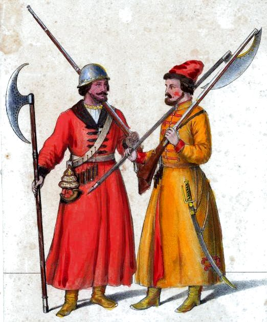 Russian Strieltsy